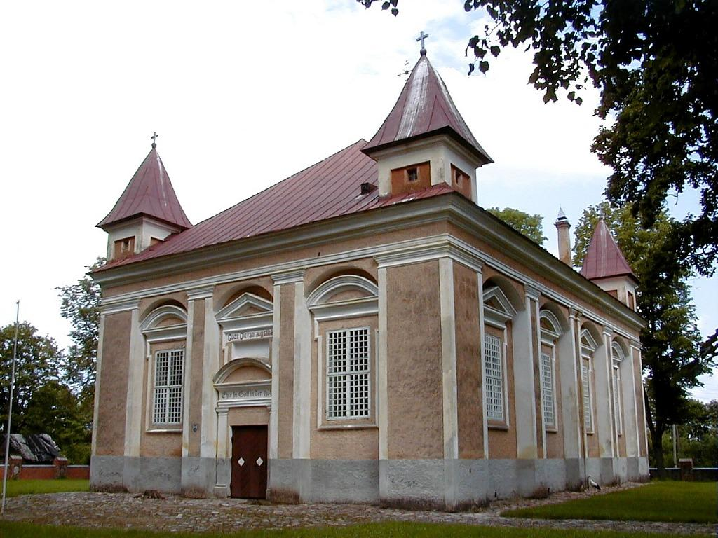 Subate Saint George Evangelical Lutheran Church. Built in 1685.